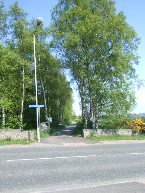 Former rail/road crossing The Old Deeside Railway near Milltimber.